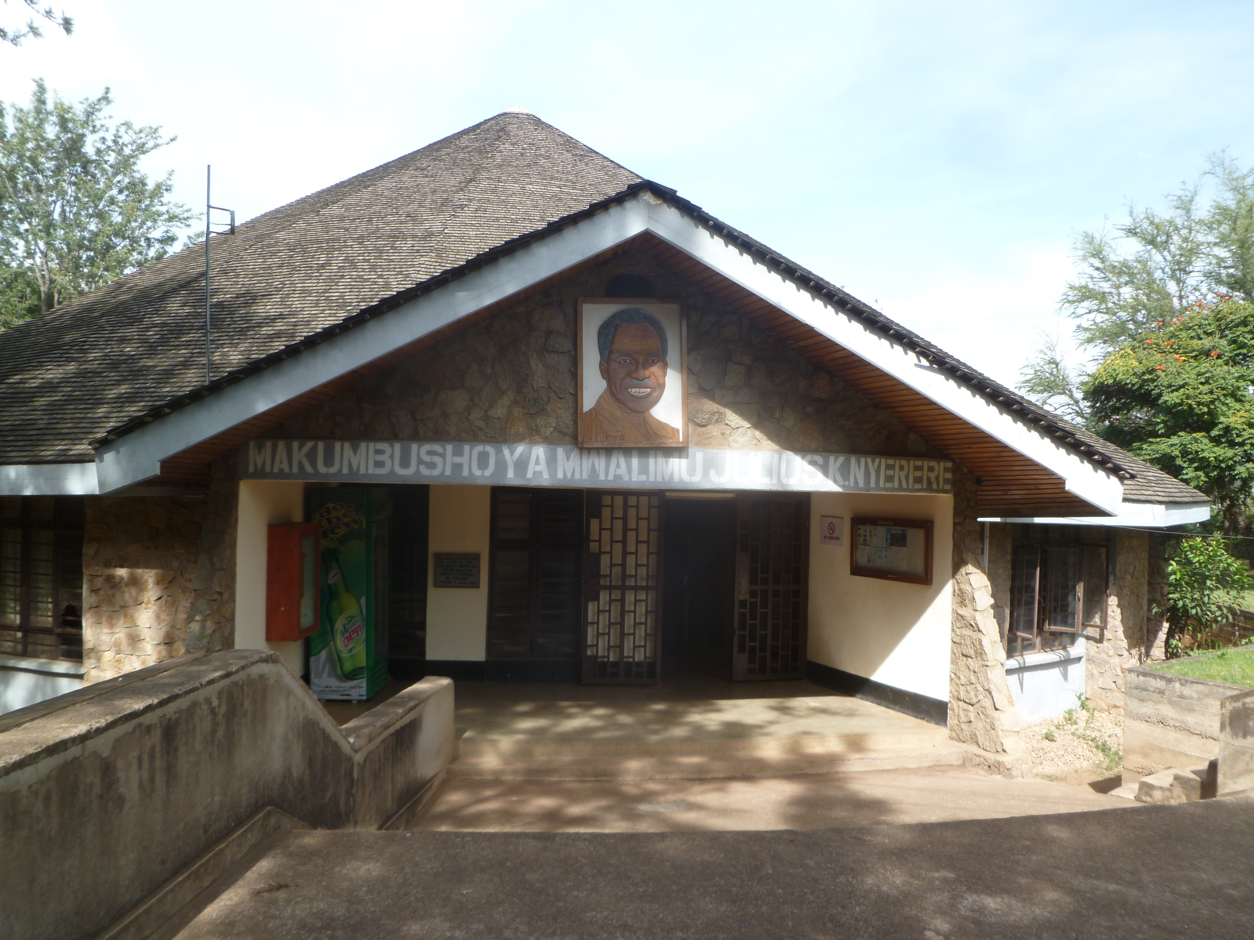 Picture of the entrance of Mwalimu Nyerere Museum in Butiama, Mara Region, Tanzania